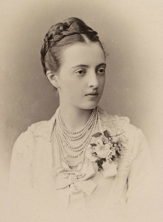 Grand Duchess Anastasia Mikhailovna of Russia